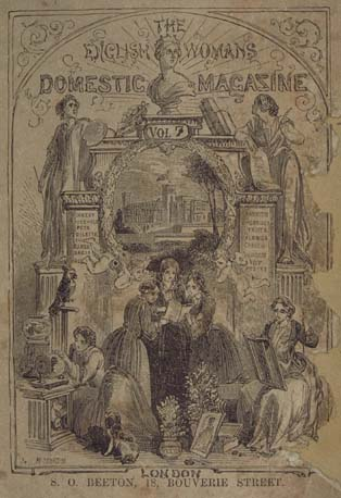 title page of "The Englishwoman's Domestic Magazine" of 1852